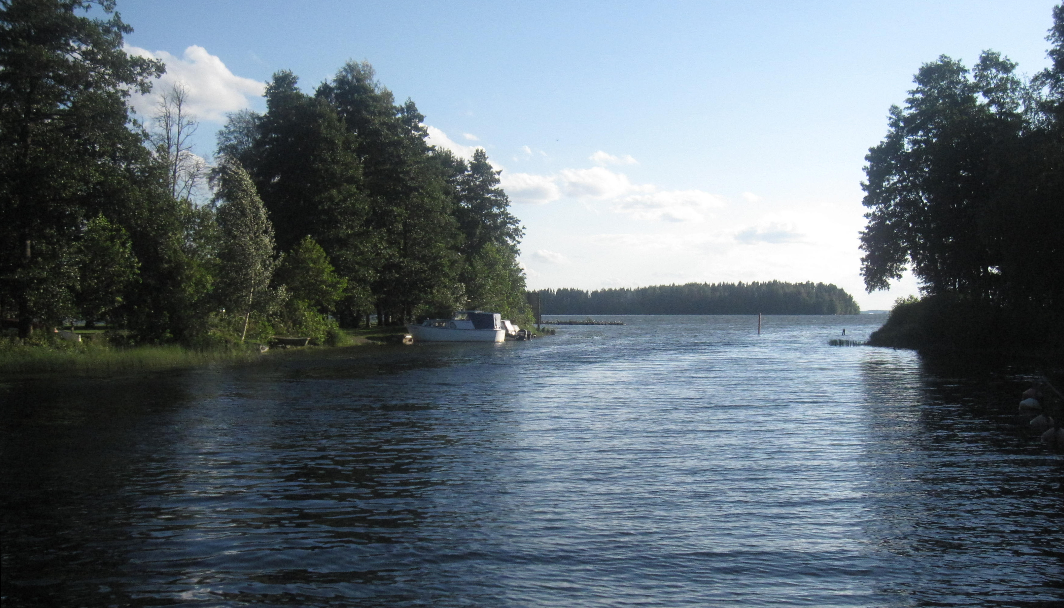 The west end of Kostianvirta at Lake Mallasvesi.